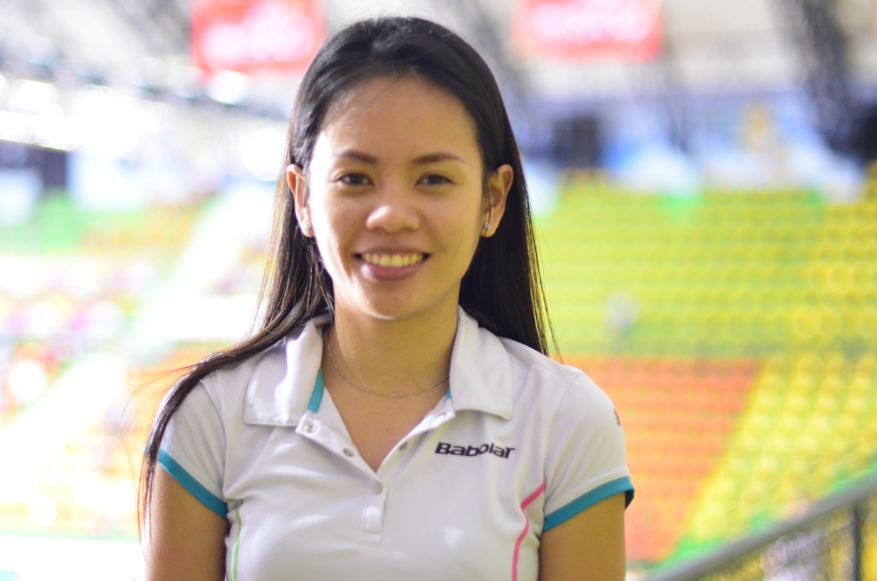 Salakjit Ponsana